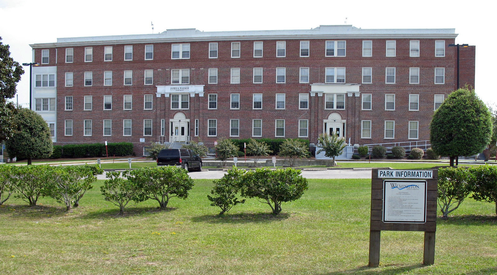 National Register of Historic Places listings in New Hanover County, North Carolina. James Walker Nursing School Quarters, 1020 Rankin St., Wilmington, NC. Photographed September 20, 2009 from the park to the west of the building near the intersection of Rankin and North 10th Sts.